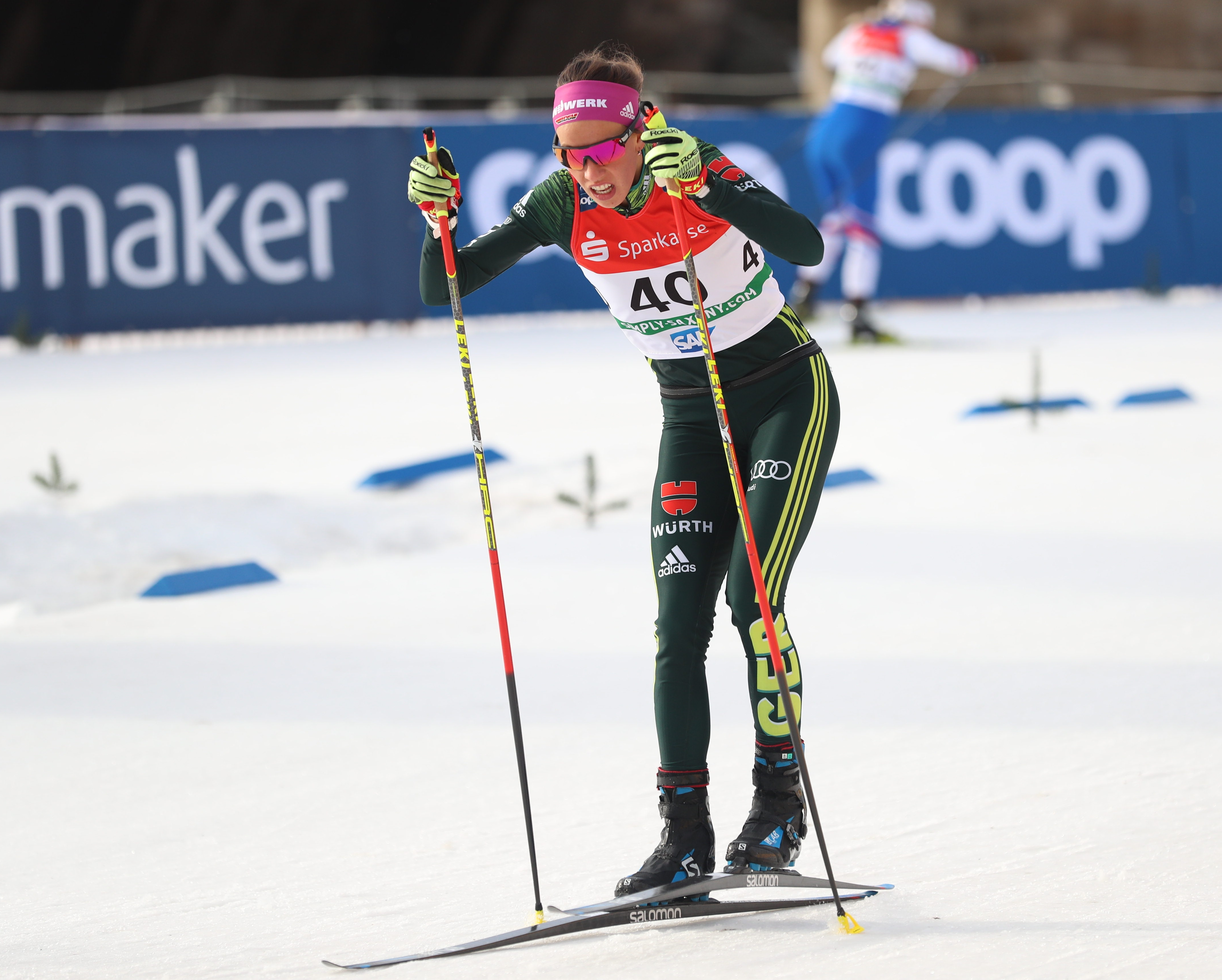 Women's Qualification at the FIS Cross-Country World Cup Dresden 2019 (1.6 km Free Sprint)